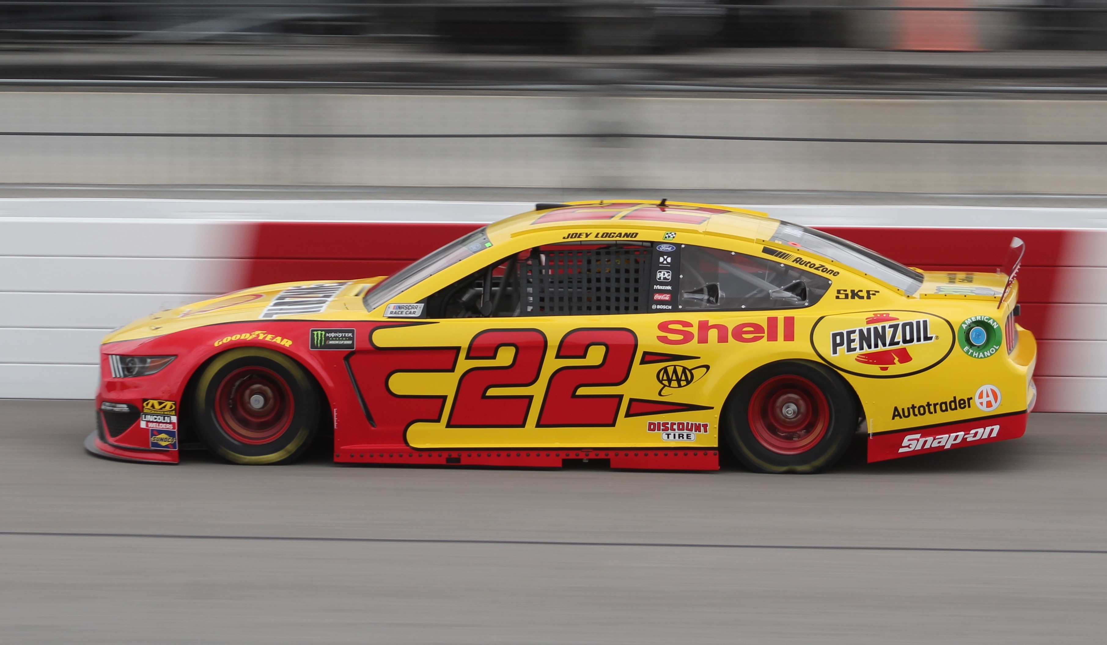 2019 Toyota Owners 400